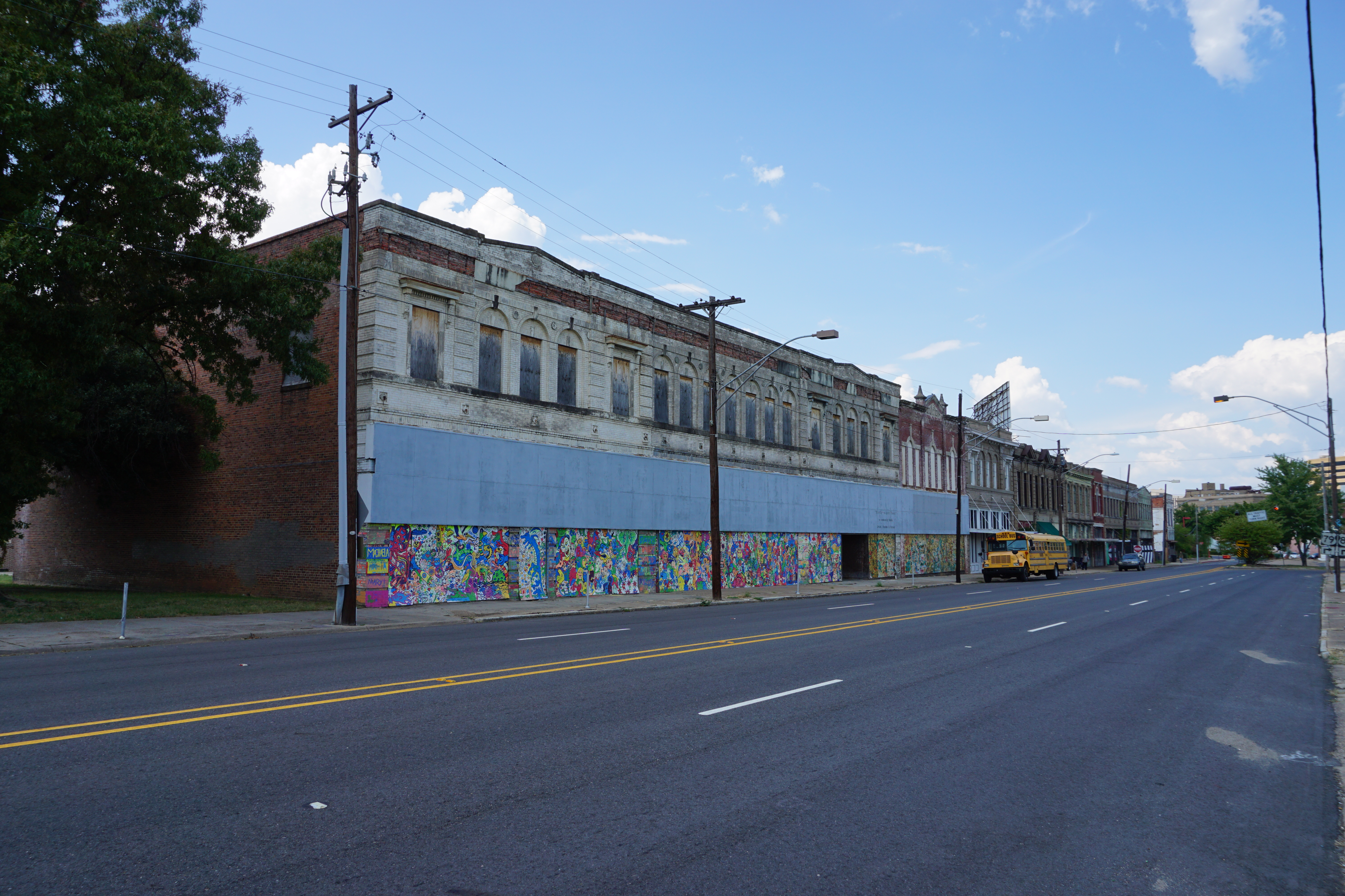 Texas Avenue in Shreveport, Louisiana (United States).